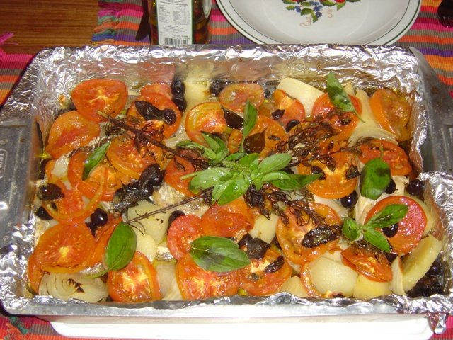 a traditional bacalhau (stockfish) dish from Portugal/Brasil